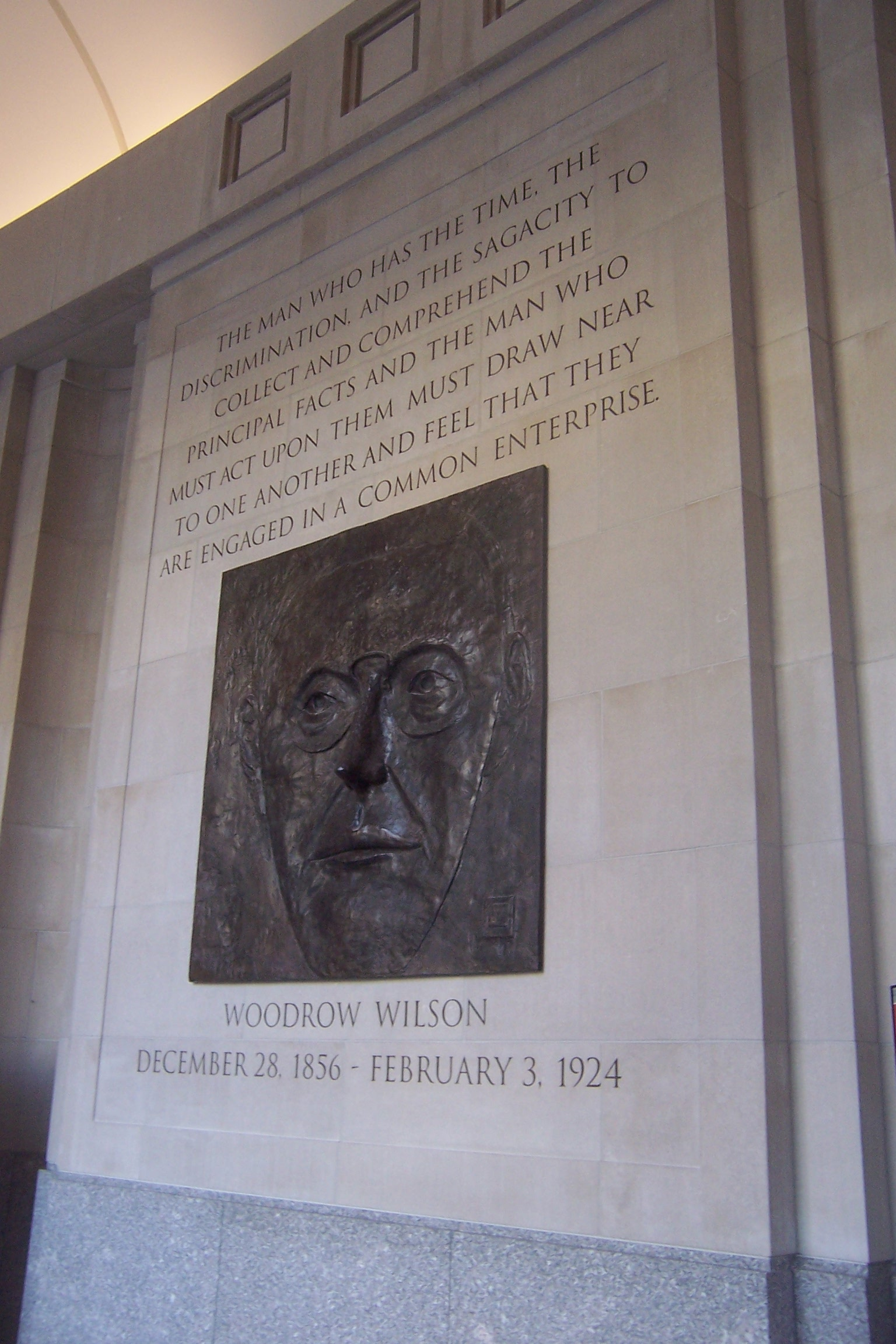 The inscription and relief at the center of the Memorial Hallway at the Woodrow Wilson International Center for Scholars in Washington, D.C.